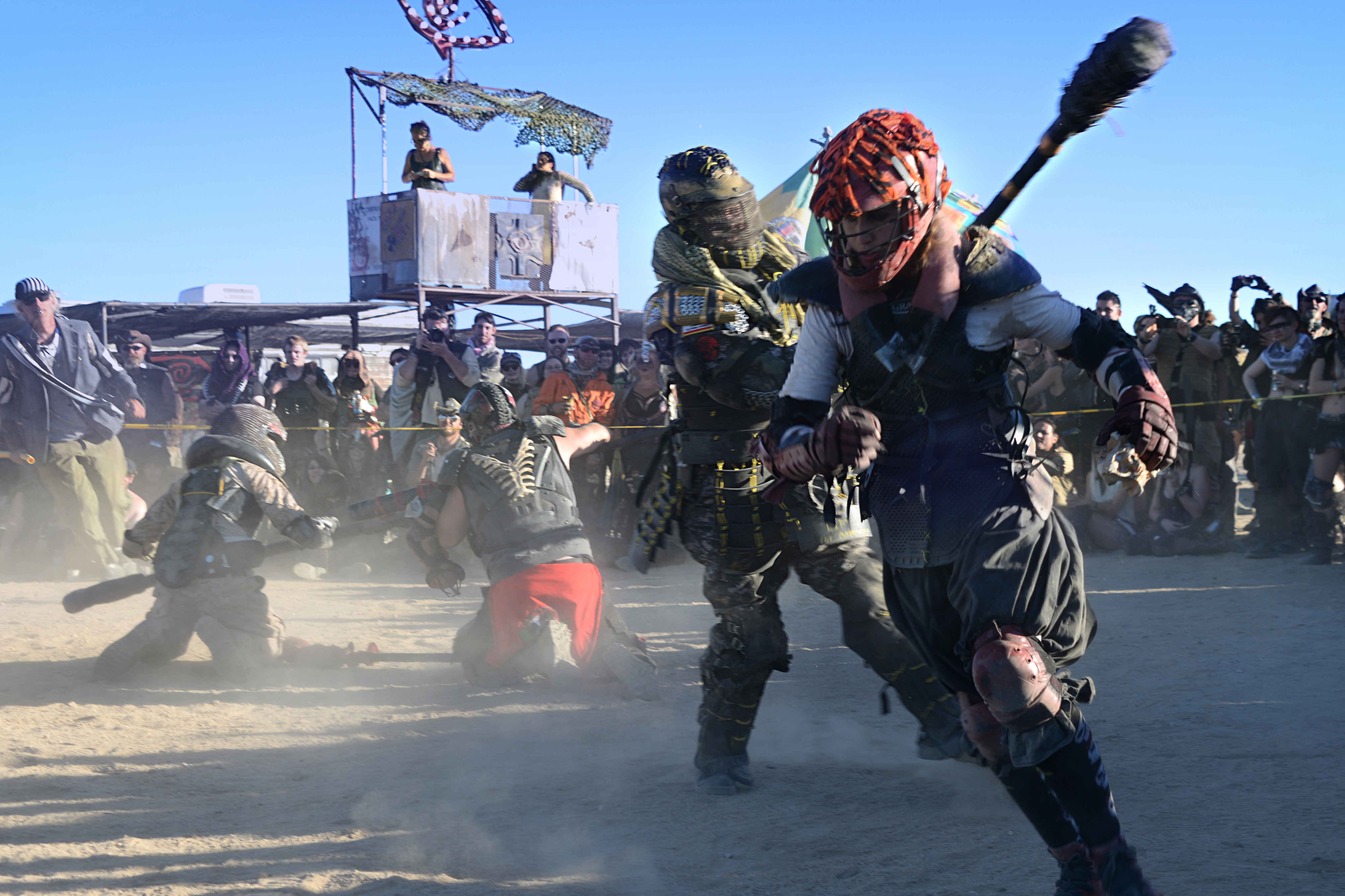 Wasteland Weekend Jugger Match - Photo by Glenn Francis of